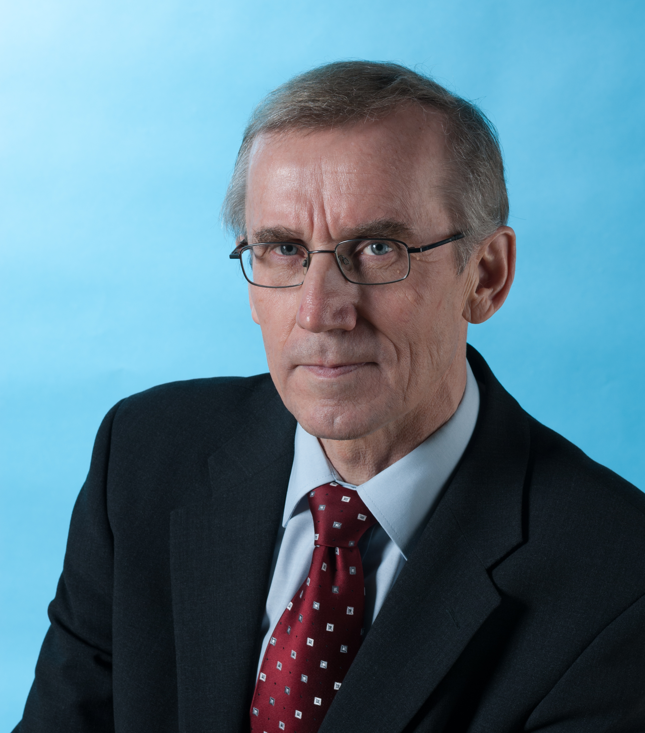 Former SDP minister Antti Kalliomäki in studio